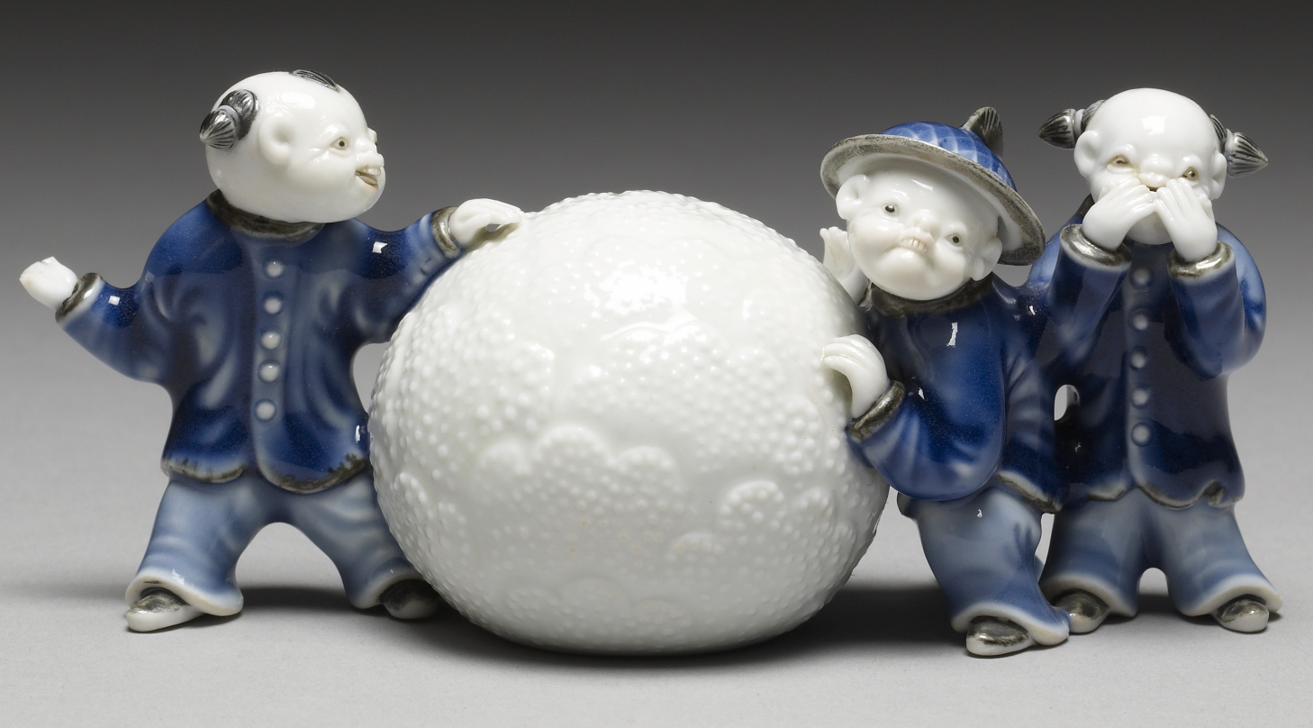 This Hirado ware brush rest depicts three Chinese boys in the process of rolling a snowball.